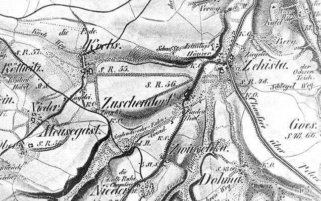 Zuschendorf and Zehista (districts of Pirna) in an topographic atlas from 1821